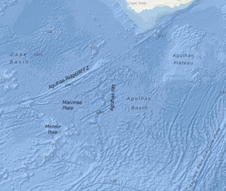 Map of the Agulhas Basin south of Africa. AFFZ = Agulhas-Falkland Fracture Zone.